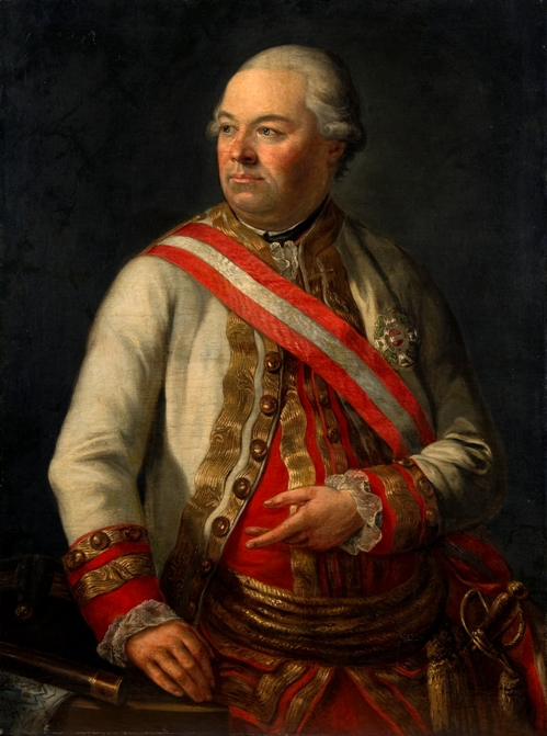 Portrait of Andreas Hadik von Futak (1711-1790) -confused with his son Karl Joseph Hadik von Futak (1756-1800).